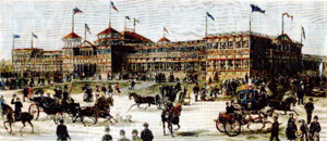 1887 Piedmont Exposition Main Building This engraving shows the 1887 Piedmont Exposition's main building. Located in Atlanta's Piedmont Park, the structure was 570 feet long, 126 feet wide, and two stories high. The Exposition opened on October 10 to nearly 20,000 visitors.